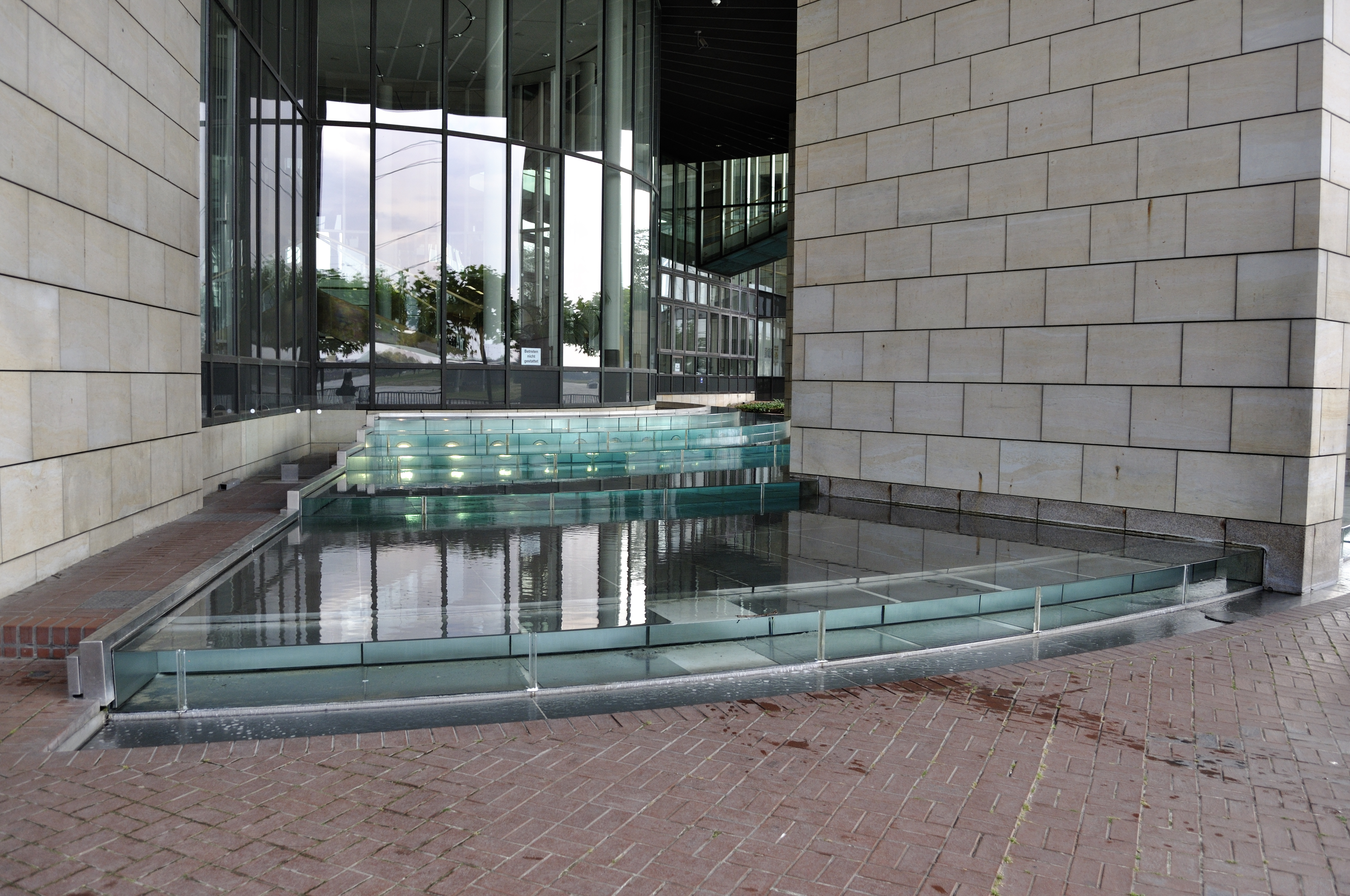 Picture taken in Düsseldorf before Duisburg summer meetup 2010.